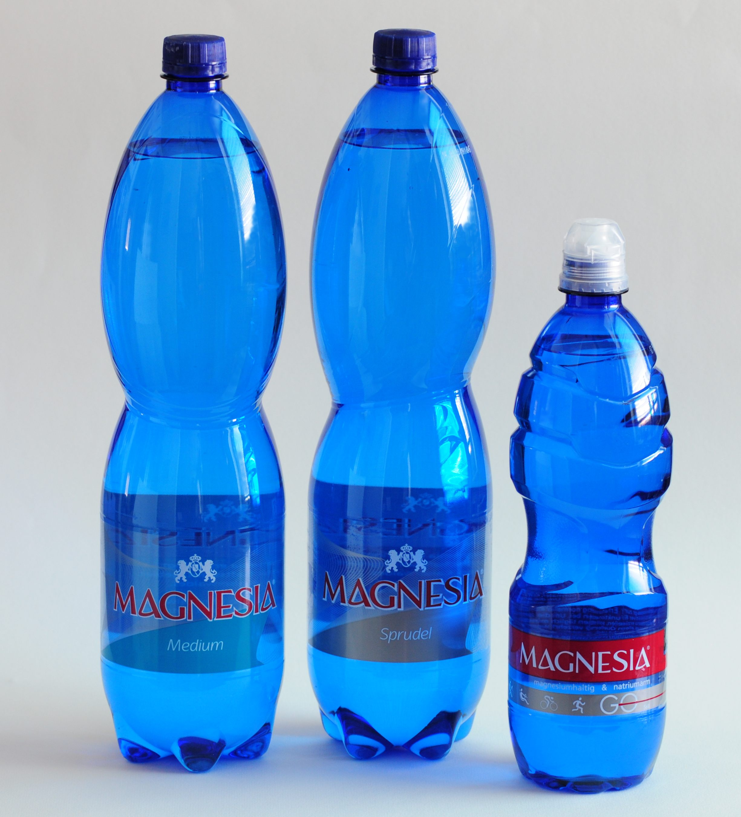 Magnesia mineral water